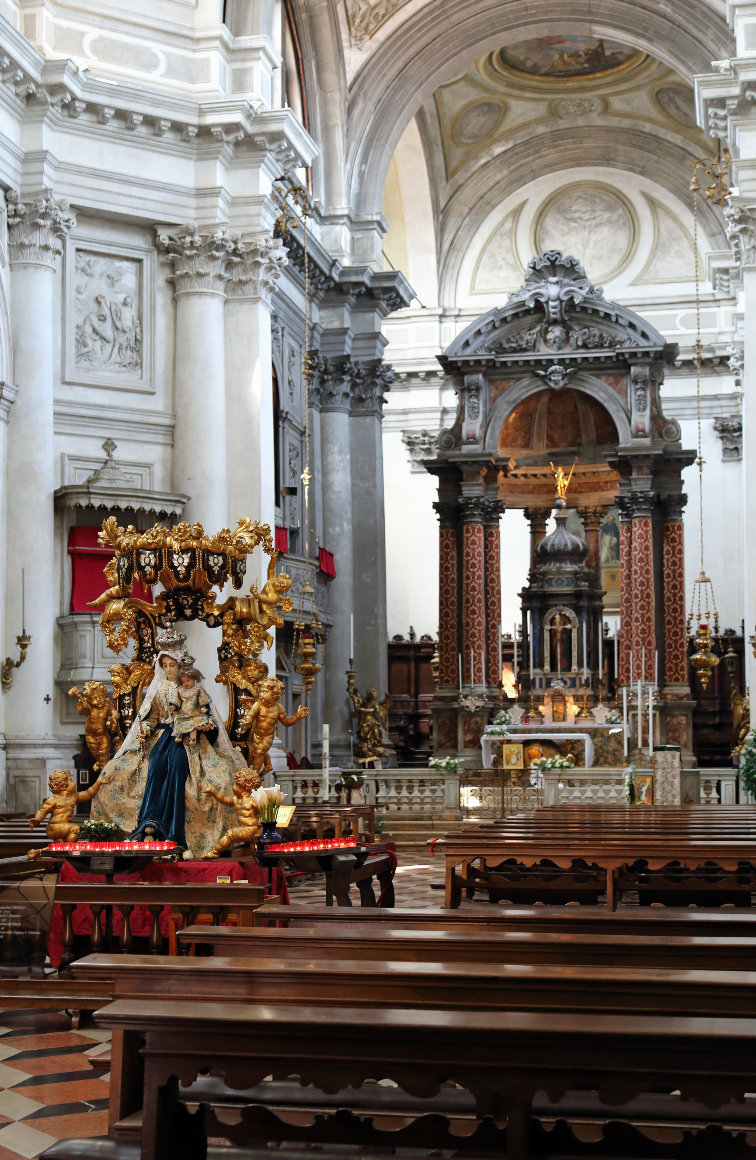 Venice (Italy): interior of the Gesuati church (Santa Maria del Rosario)